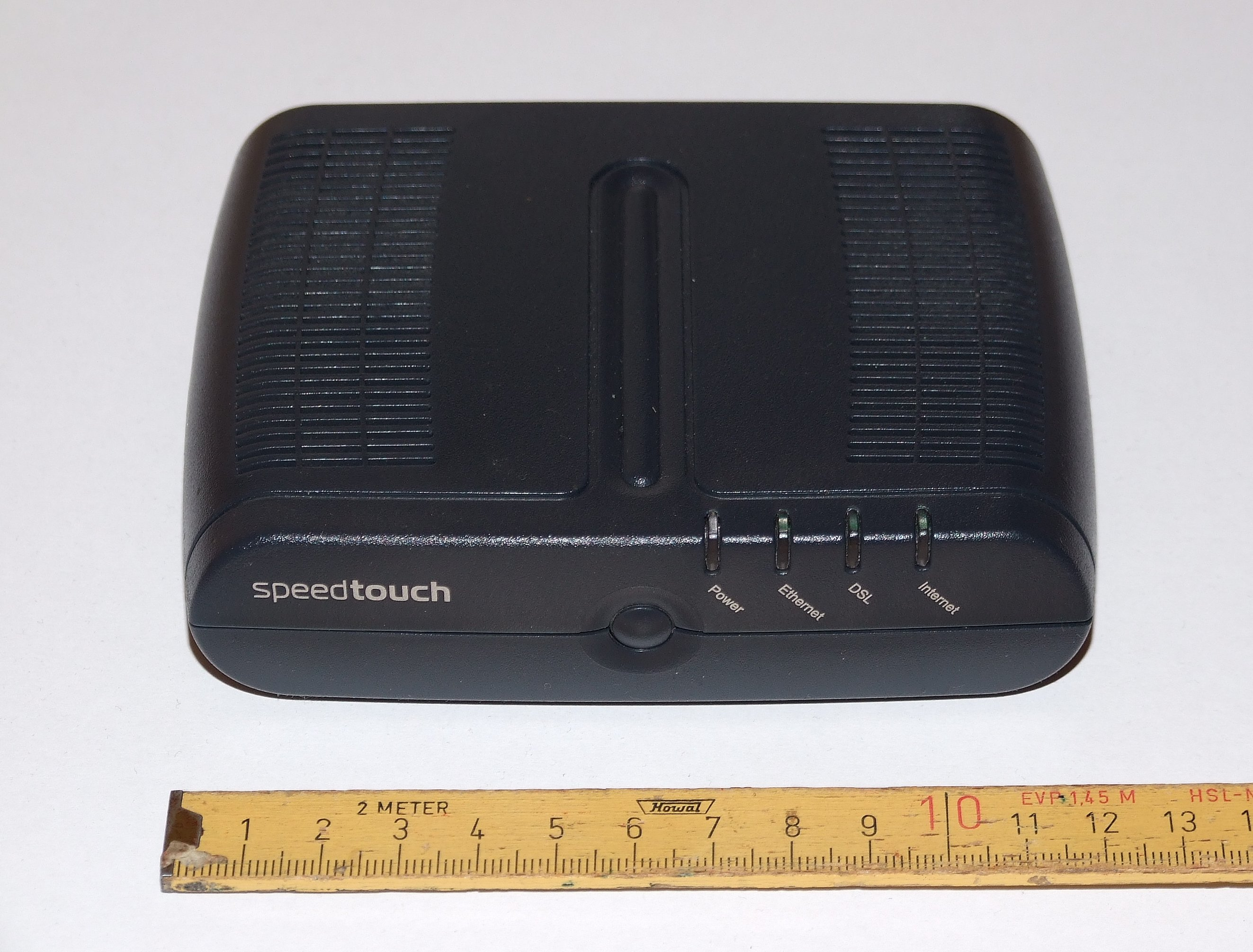 DSL modem Thomson Speedtouch 516i